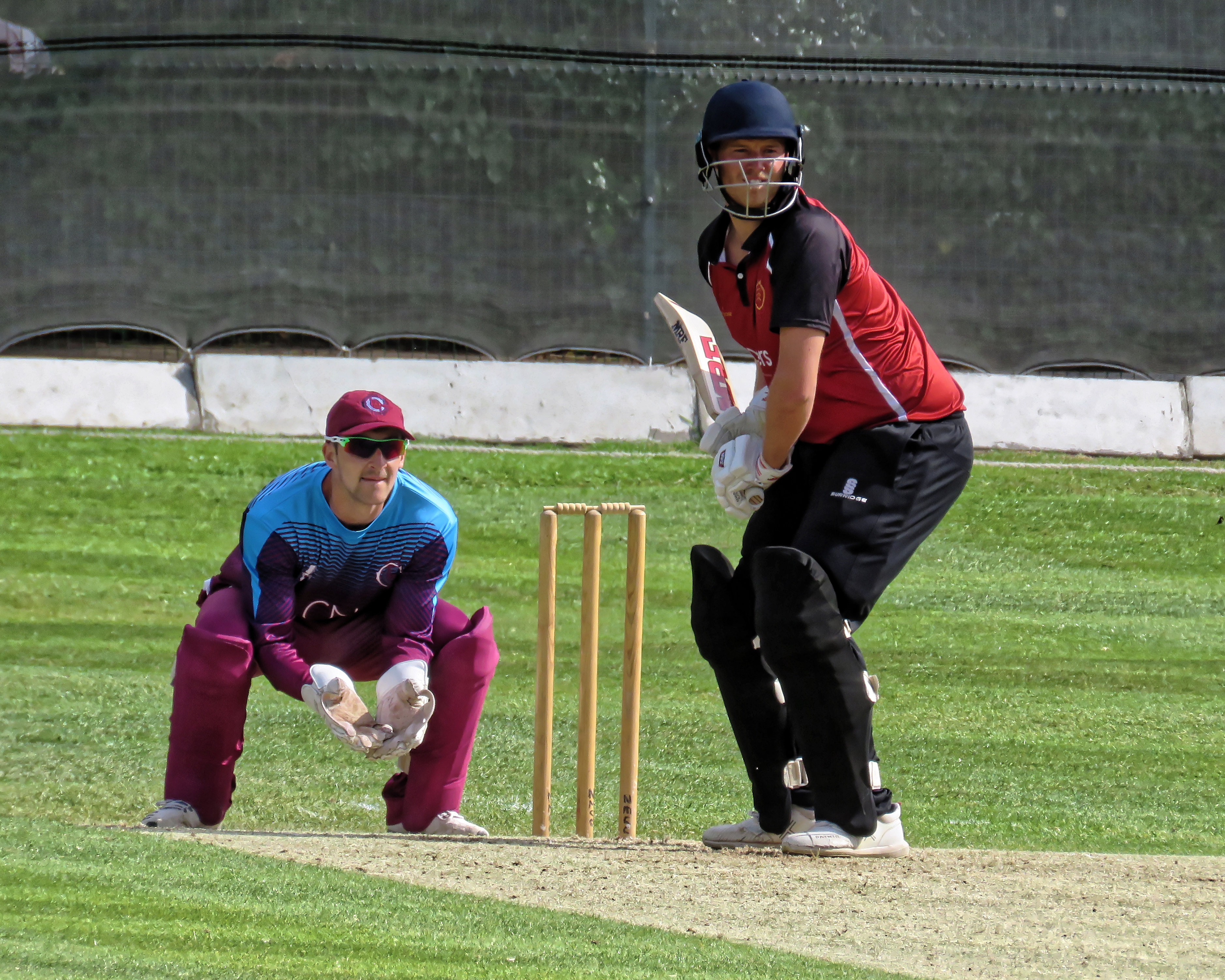 A May 2019 Saturday public Middlesex County Cricket League match between North Middlesex Cricket Club 1st XI (batting) and Hampstead Cricket Club[1] 1st XI at Park Road, Crouch End, Haringey, London, England.Mobile device view: Wikimedia (as at May 2019) makes it difficult to immediately view photo groups related to this image. To see its most relevant allied photos, click on North Middlesex Cricket Club, Hampstead Cricket Club, Minor cricket clubs of London, and this uploader's Cricket photos. You can add a click-through 'categories' button to the very bottom of photo-pages you view by going to settings... three-bar icon top left.Desktop view: Wikimedia (as at May 2019) makes it difficult to immediately view the helpful category links where you can find images related to this one in a variety of ways; for these go to the very bottom of the page.This image is one of a series of date and/or subject allied consecutive photographs kept in progression or location by file name number and/or time marking.Camera: Canon PowerShot SX60 HSSoftware: File lens-corrected, optimized, perhaps cropped, with DxO PhotoLab 2 Elite, and likely further optimized with Adobe Photoshop CS2.